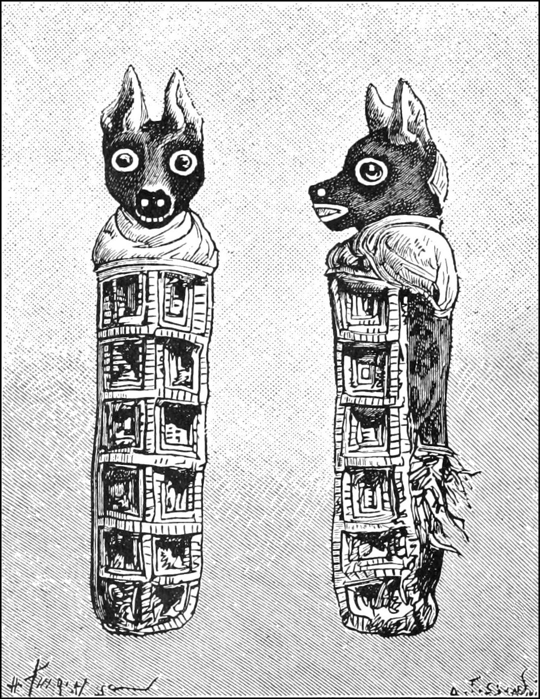 Egyptian mummy of a dog front and profile views